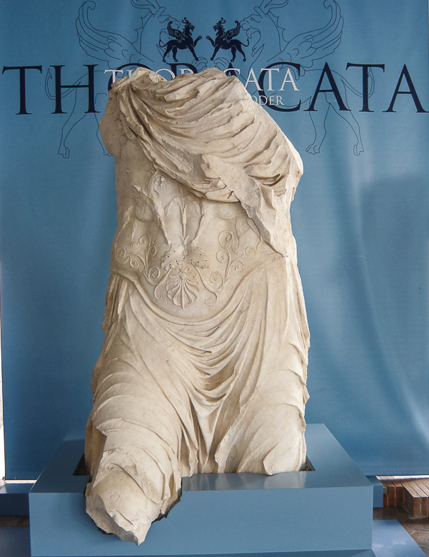 18102009 105833 CRDB 1698